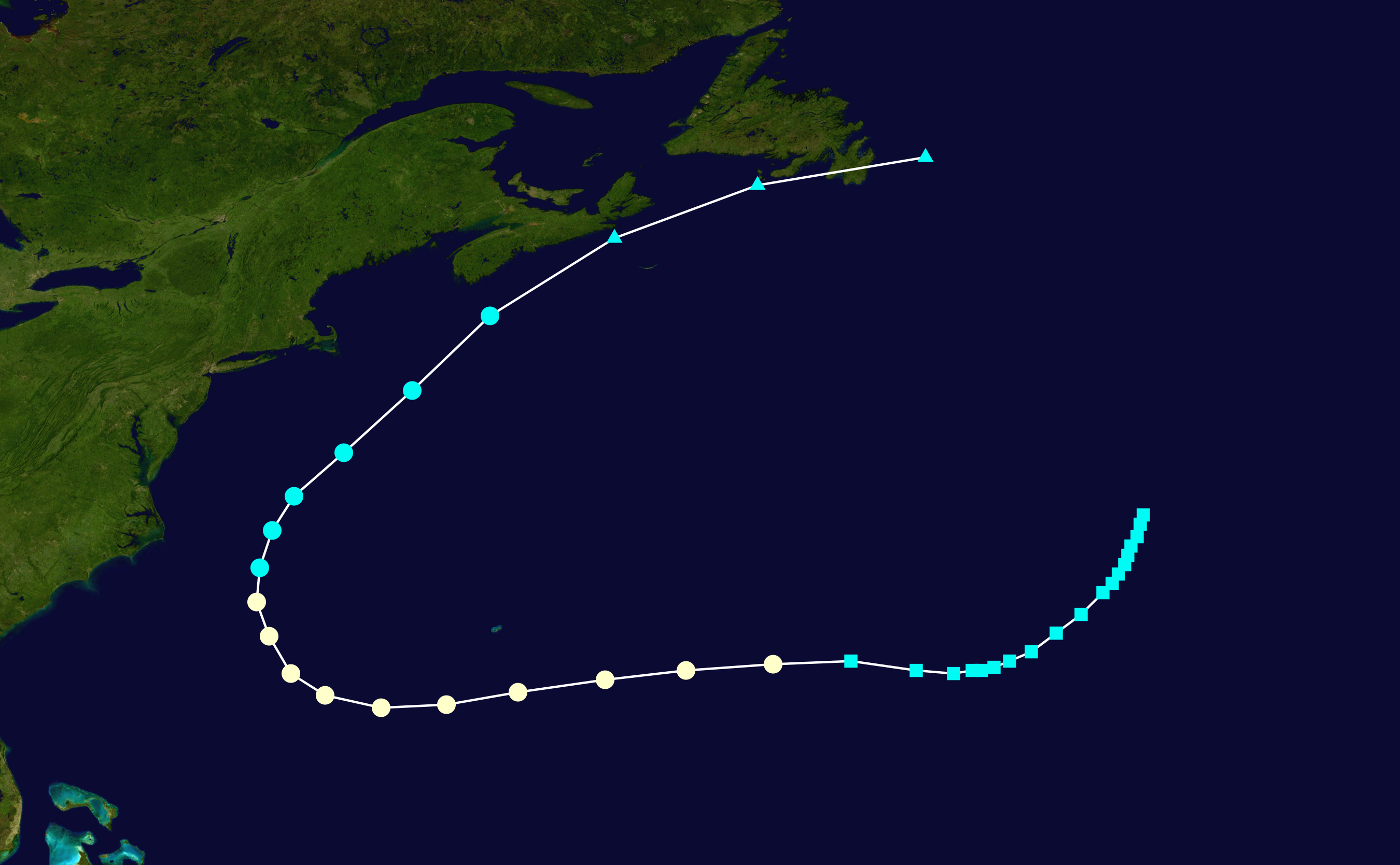 Track map of Hurricane Lili of the 1990 Atlantic hurricane season. The points show the location of the storm at 6-hour intervals. The colour represents the storm's maximum sustained wind speeds as classified in the Saffir–Simpson scale (see below), and the shape of the data points represent the nature of the storm, according to the legend below. Saffir–Simpson scale Tropical depression≤38 mph≤62 km/h Category 3111–129 mph178–208 km/h Tropical storm39–73 mph63–118 km/h Category 4130–156 mph209–251 km/h Category 174–95 mph119–153 km/h Category 5≥157 mph≥252 km/h Category 296–110 mph154–177 km/h Unknown Storm type Tropical cyclone Subtropical cyclone Extratropical cyclone / Remnant low / Tropical disturbance / Monsoon depression